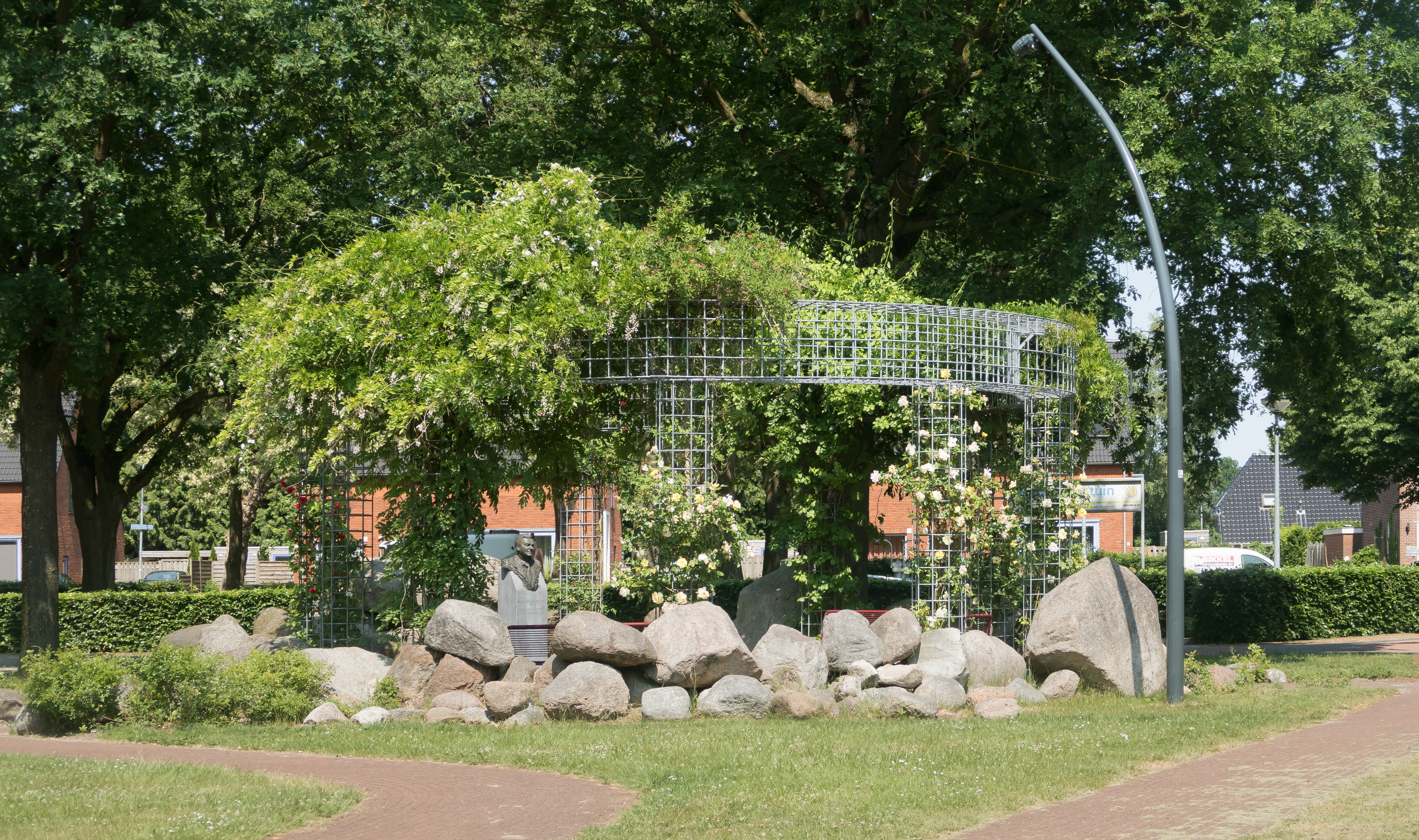 Nieuw Balinge, Meester Siebering (primary school teacher) bust in a pergola